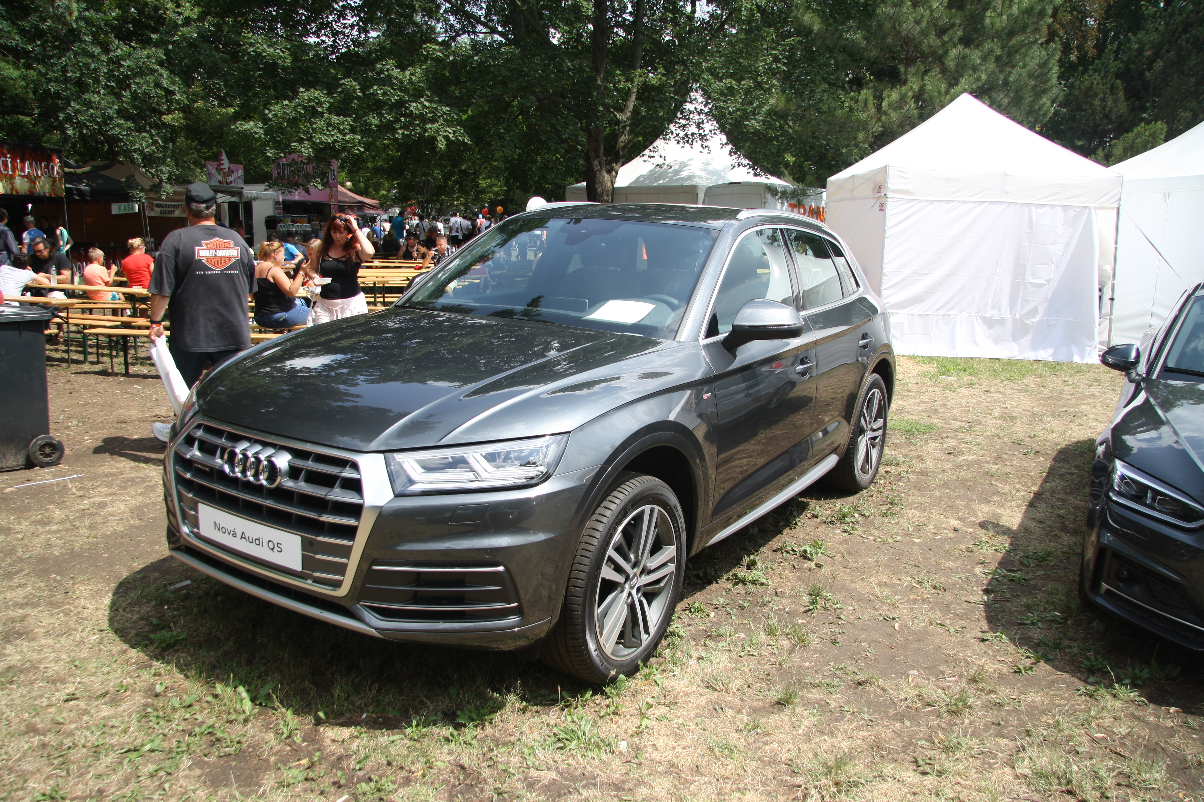 Audi Q5 2018 at Legendy 2018 in Prague.